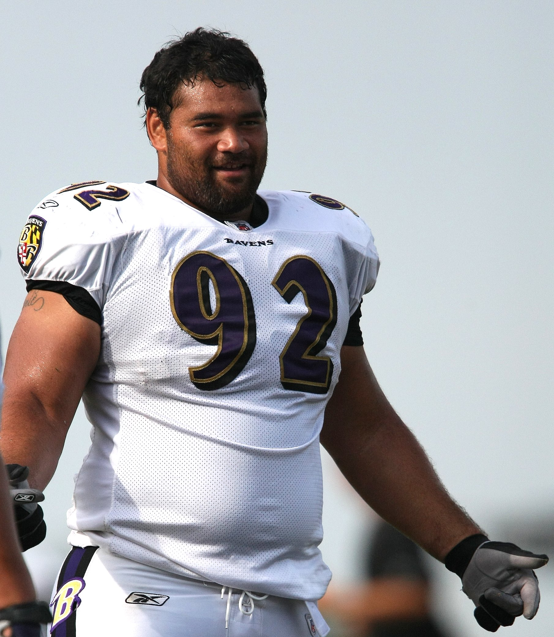 Baltimore Ravens defensive tackle Haloti Ngata at a 2009 training camp.